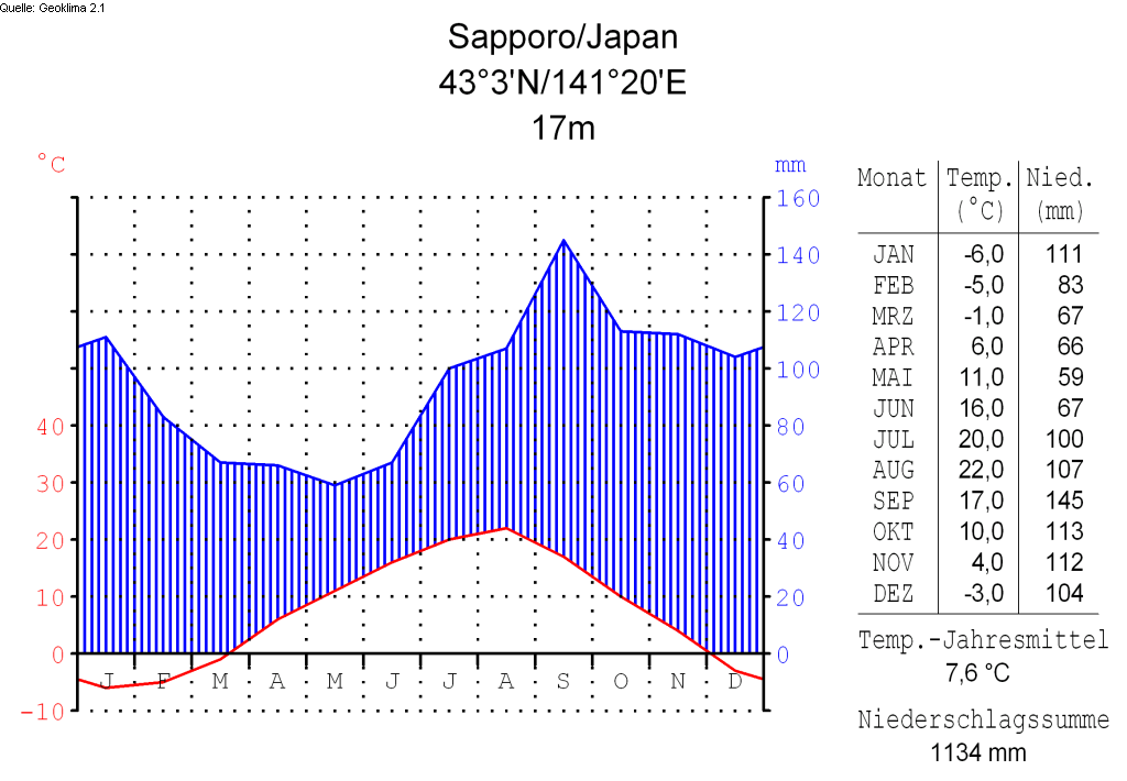 climate chart in the format by Walter and Lieth, metric, °Celsisus and millimeters, made with Geoklima 2.1